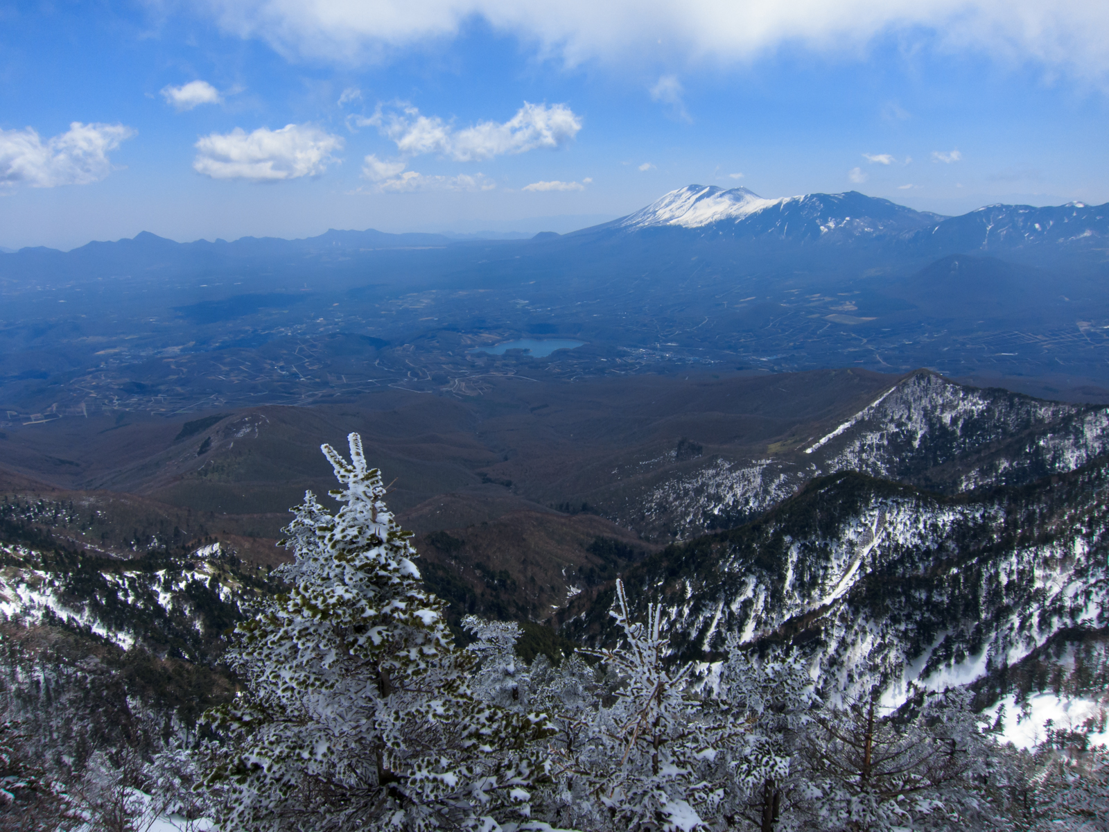 The NWN side of Mount Asama from Mount Azumaya.